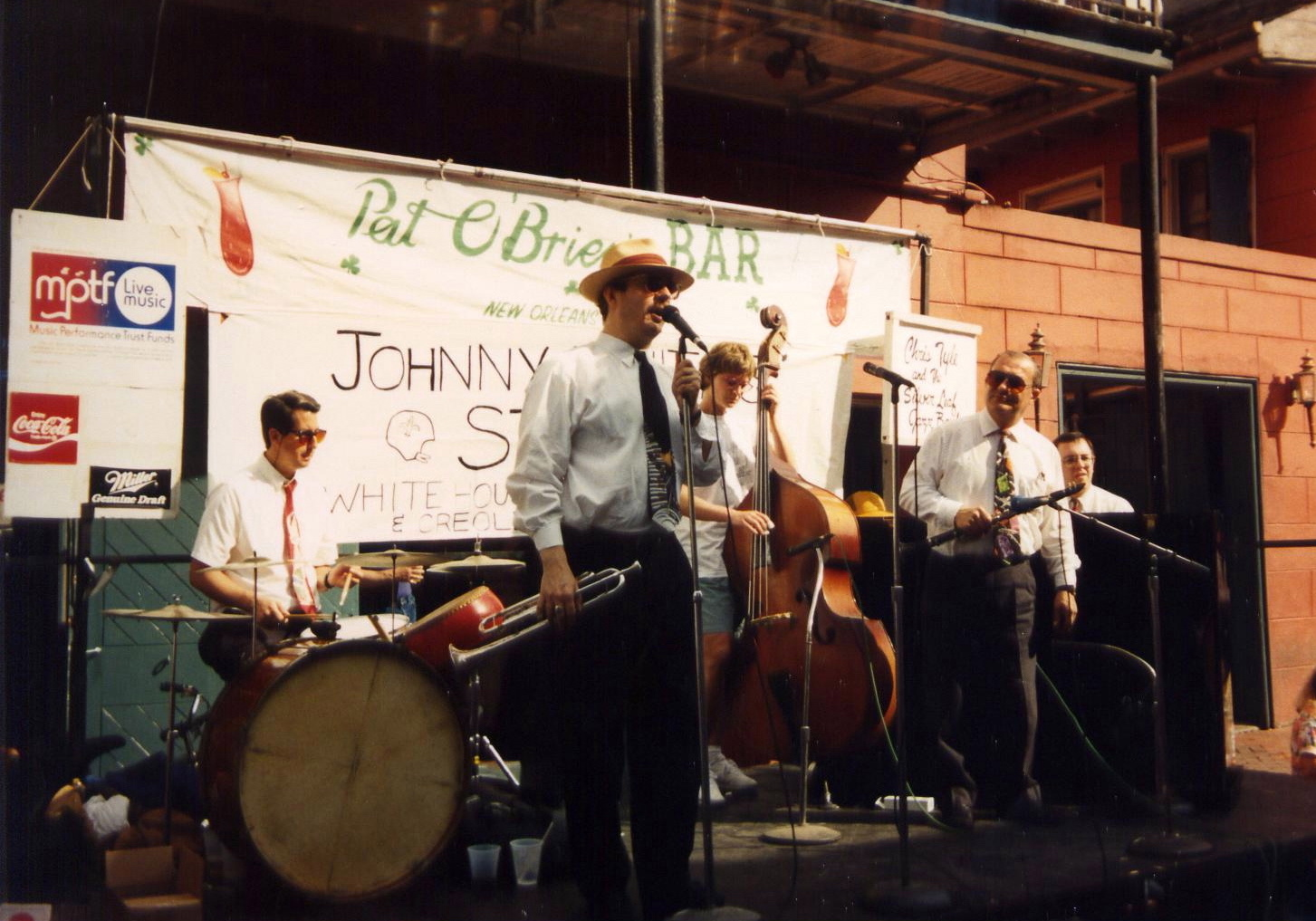 Silver Leaf Band at French Quarter Festival, New Orleans. Visible musicians include Jeff Hamilton, drums; Chris Tyle, trumpet, microphone, leader; (Sweet Martina ?), string bass; Jacques Gauthe, clarinet; Tom Roberts, piano.